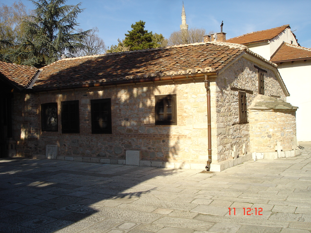 The church of the Holly Salvation in Skopje, Macedonia